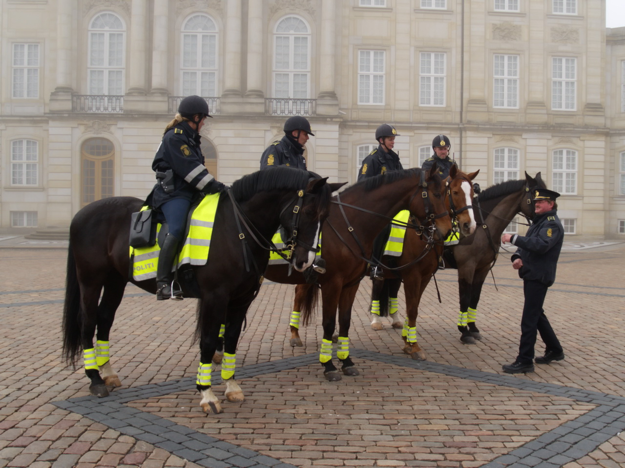 Danish police horses